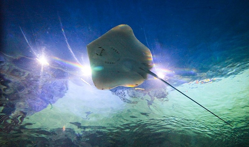 Isfahan aquarium